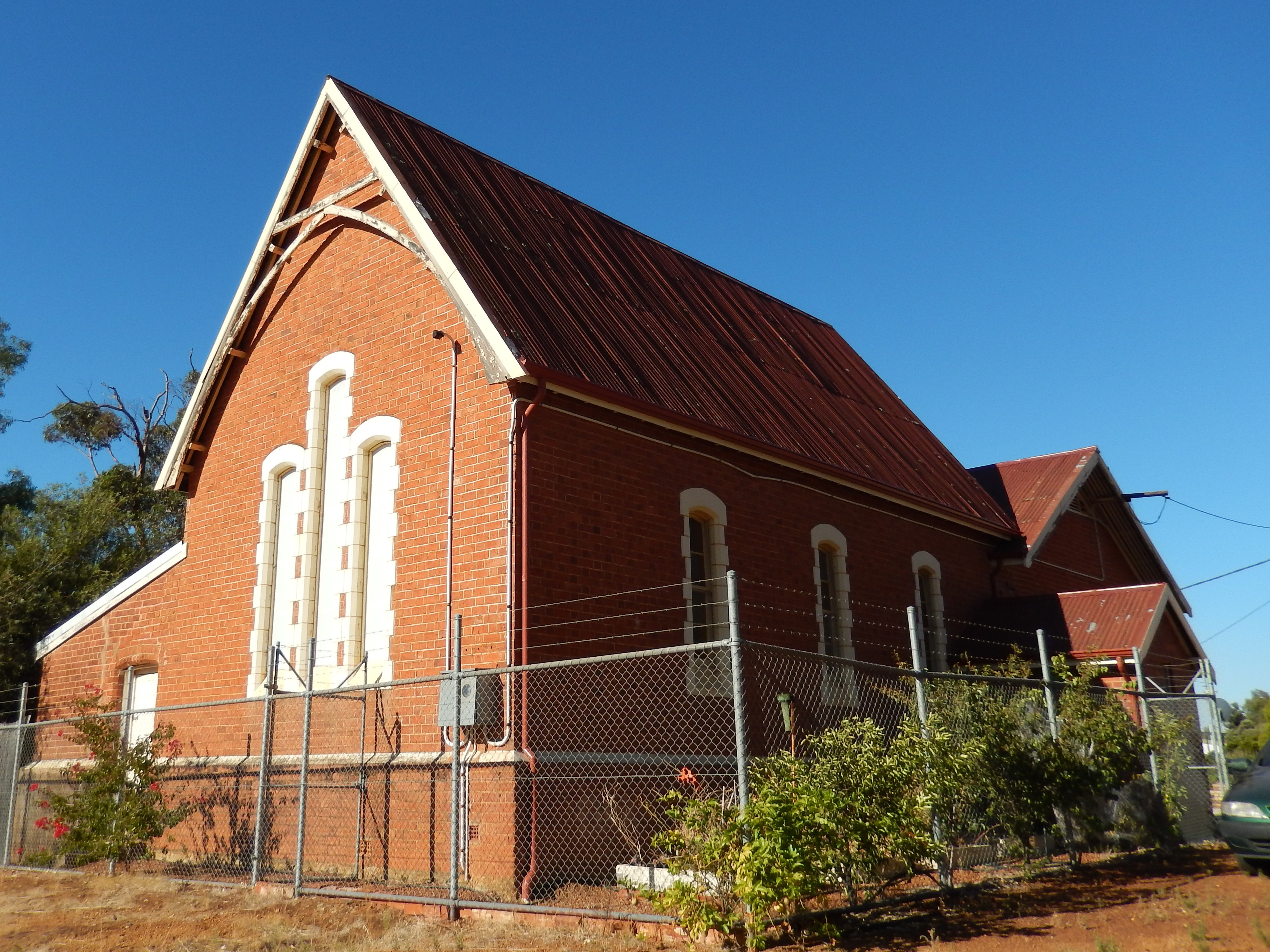 Duke Street, Toodyay. Building also used by Methodist Church after 1962 but is now privately owned.